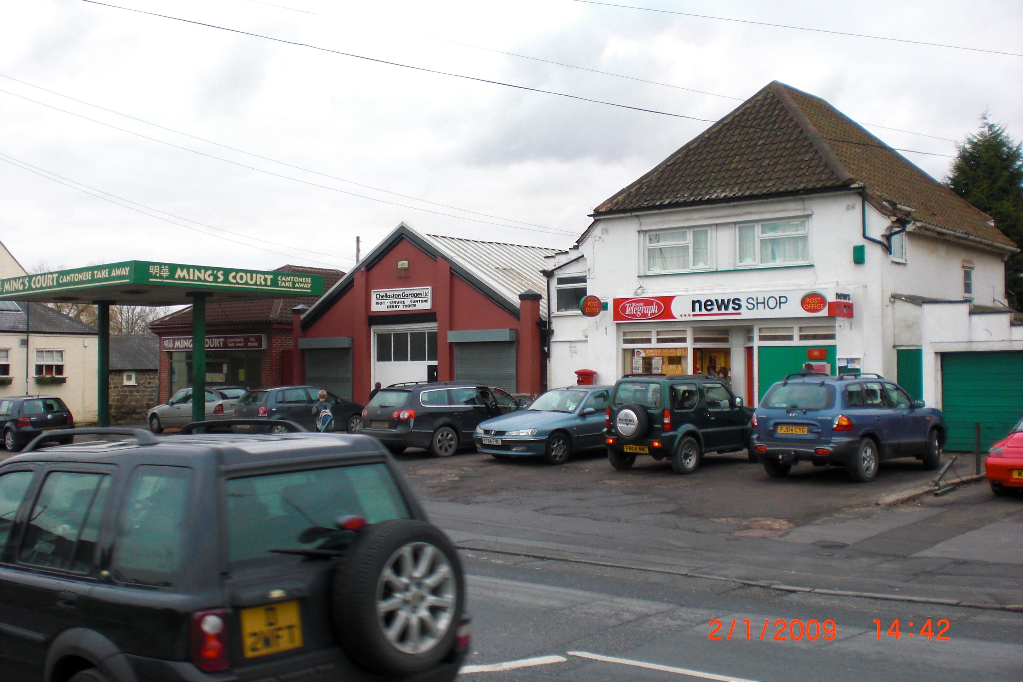 Chinese takeaway, garage, and Post Office in Chellaston, Derby